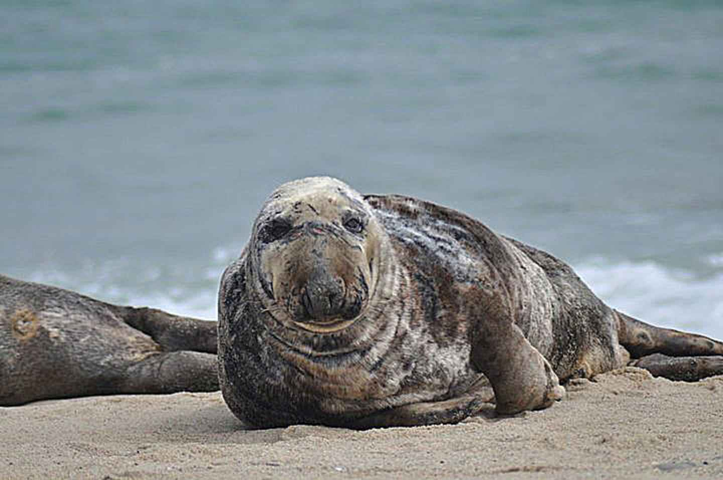 Image title: Male gray seal marine mammal animal halichoerus grypus Image from Public domain images website